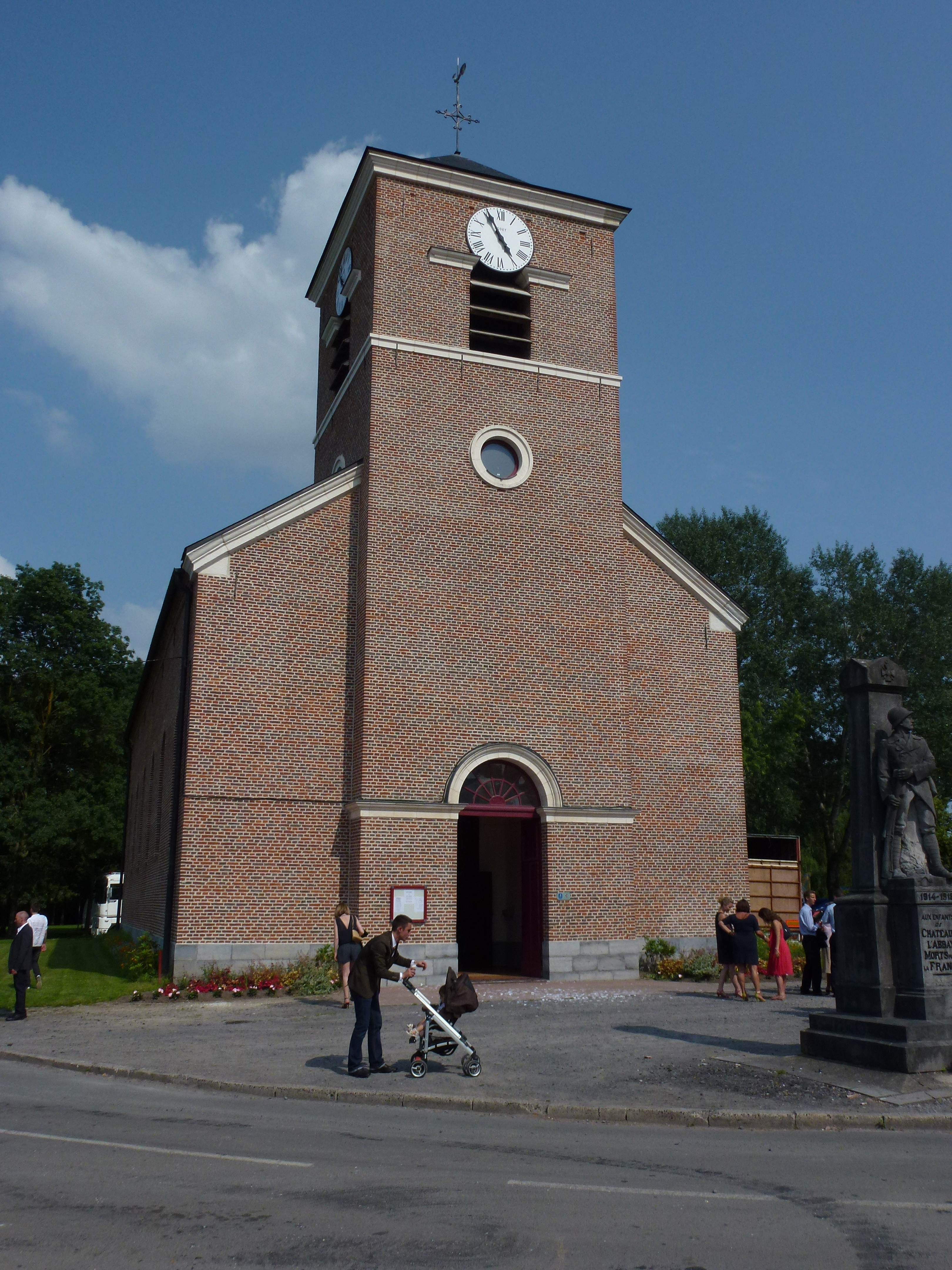 Château-l'Abbaye (Nord, Fr) église, extérieur